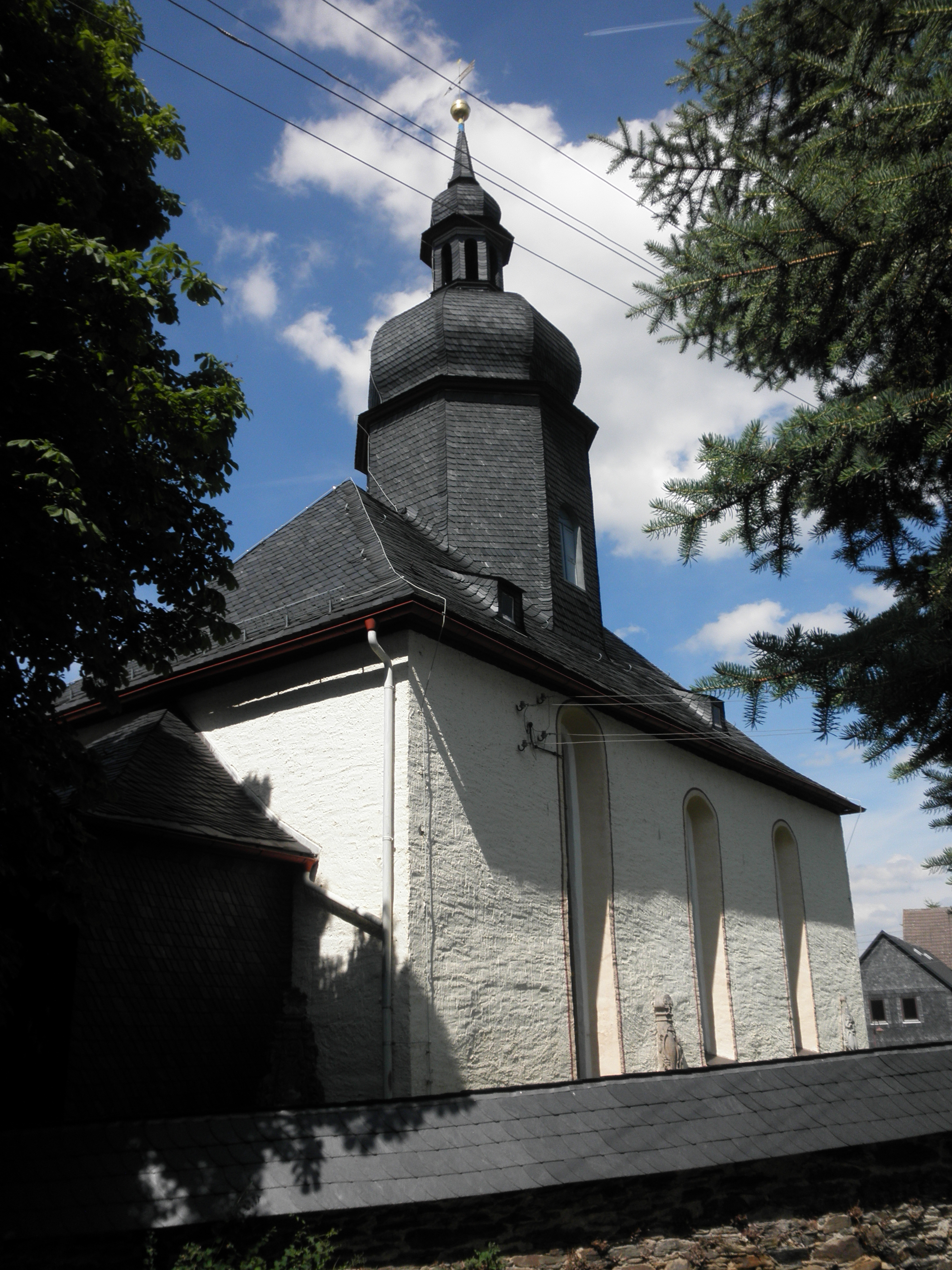 Church in Drognitz in Thuringia